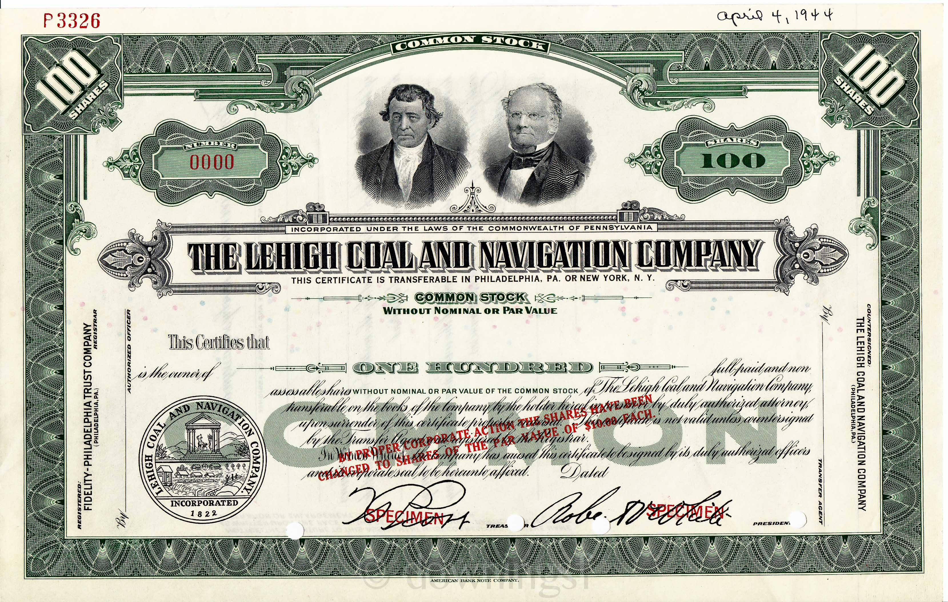 Specimen Stock Certificate